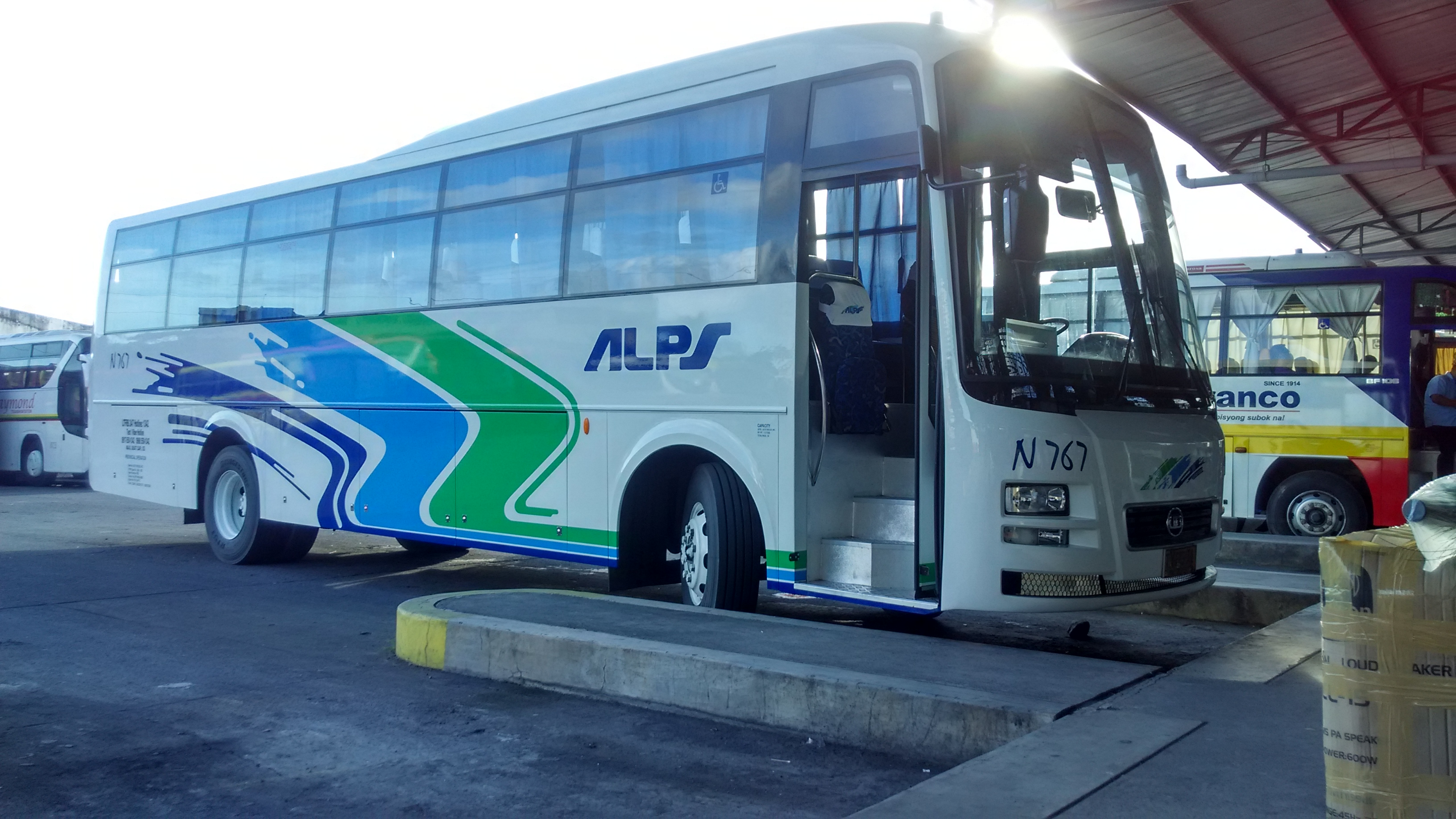 An Alps The Bus N 767 embarking passengers in Legazpi City, Albay. Pinoy Bus Fanatic